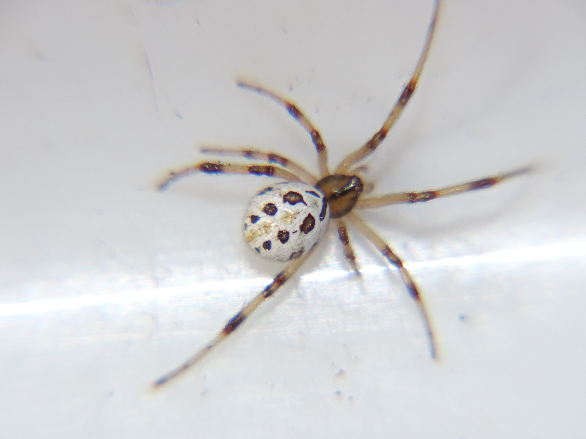 Juvenile Katipo (Latrodectus katipo)